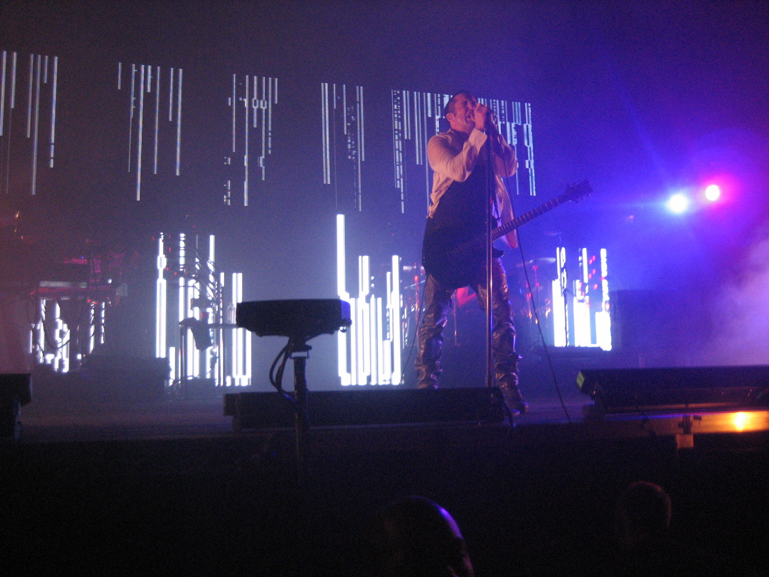 Nine Inch Nails: Live With Teeth in Moline IL